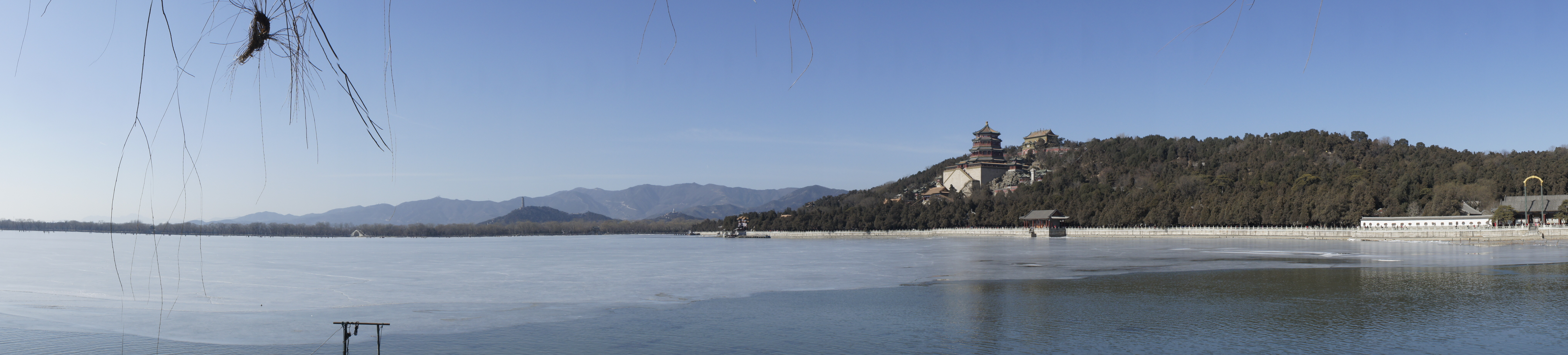 The Longevity Hill (万寿山) of the Summer Palace (颐和园).